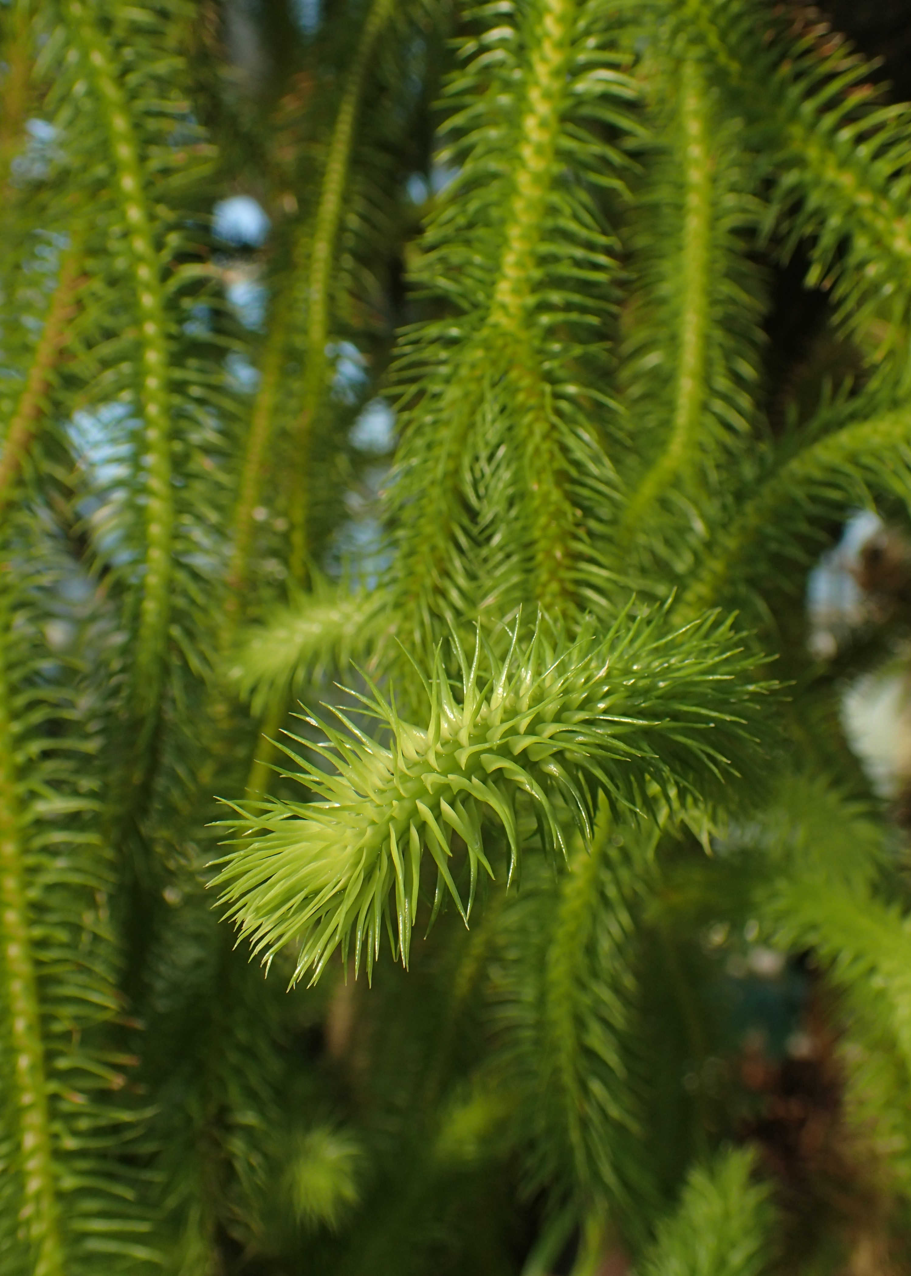 Phlegmariurus squarrosus in the Botanischer Garten, Berlin-Dahlem